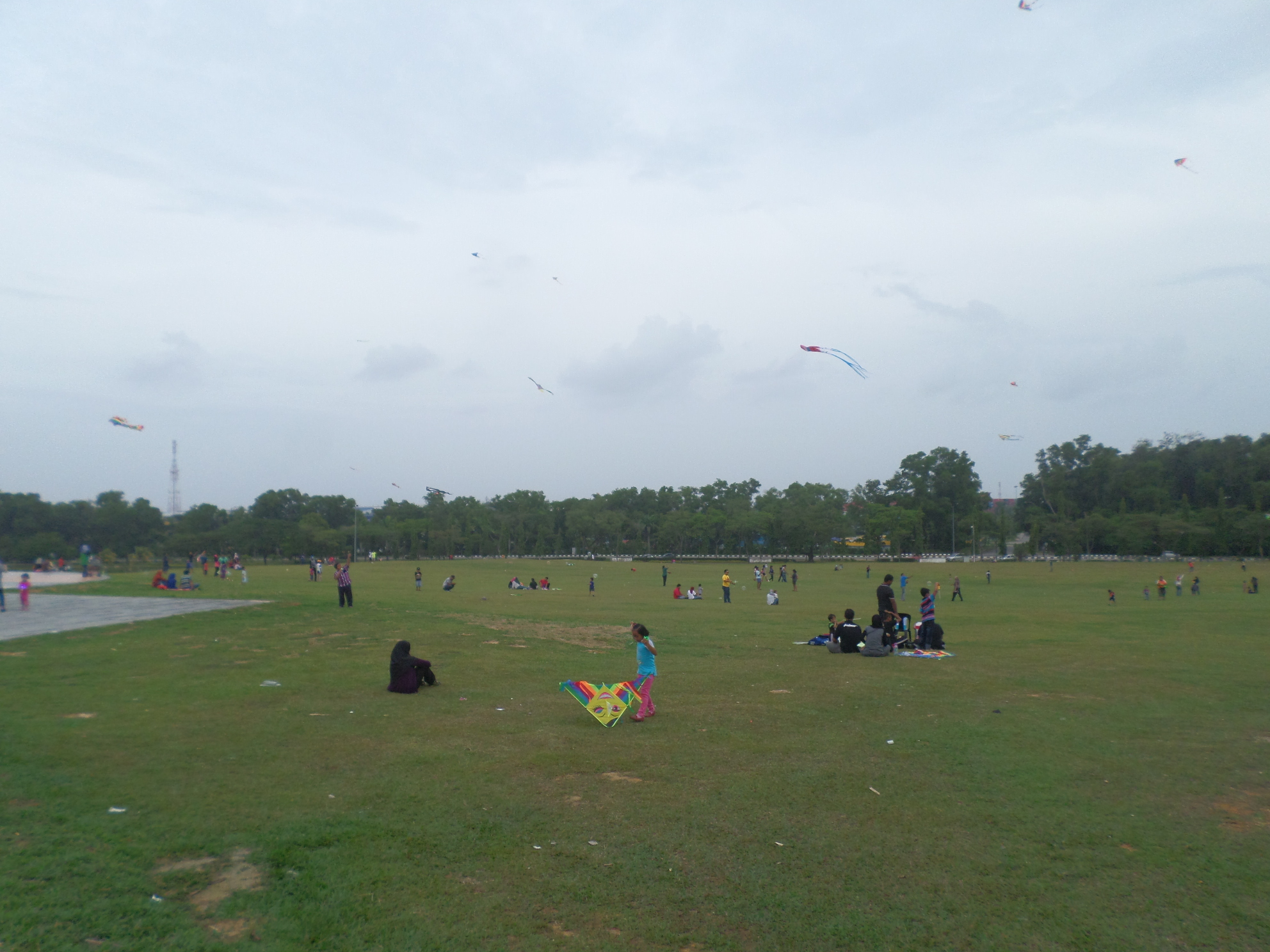 Kite Hill, Pasir Gudang Industrial Park, Pasir Gudang, Johor Bahru, Johor, Malaysia